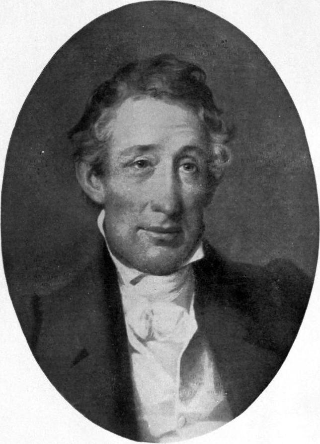 Portrait of George Ord.